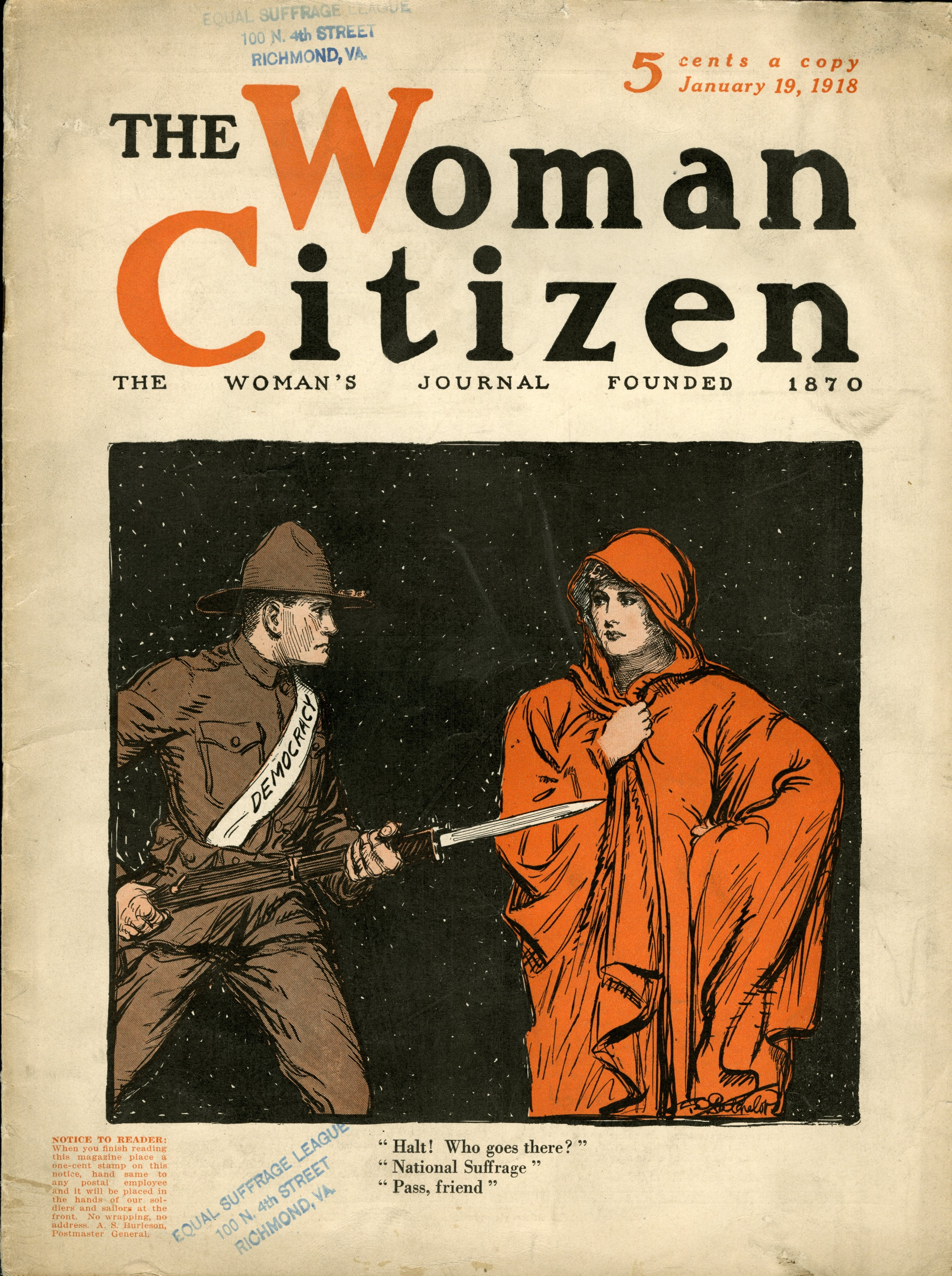 The Woman Citizen January 19 1918 Halt Who Goes There Magazine Cover